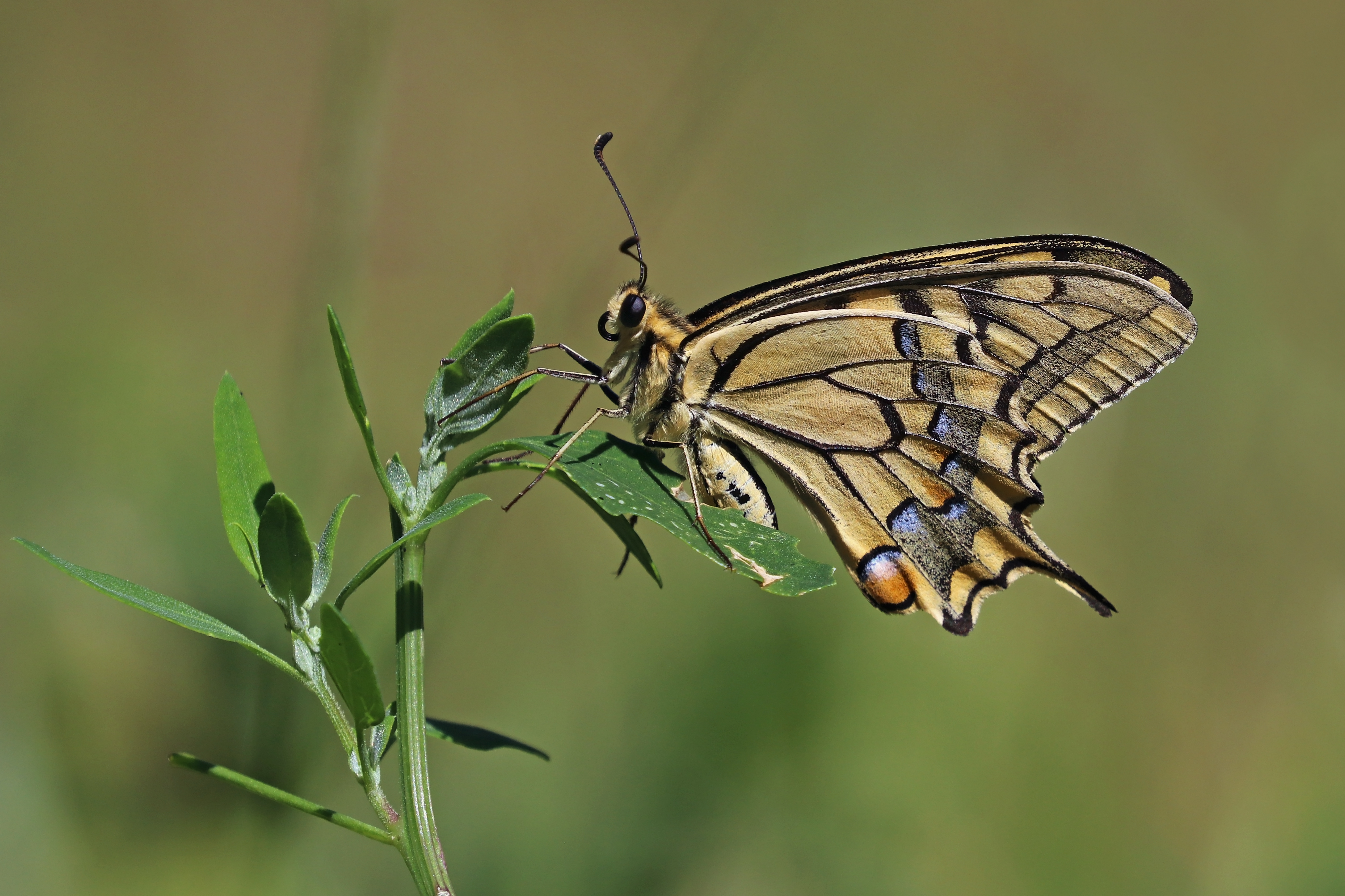 Old World swallowtail (Papilio machaon gorganus), near Apaj, Hungary